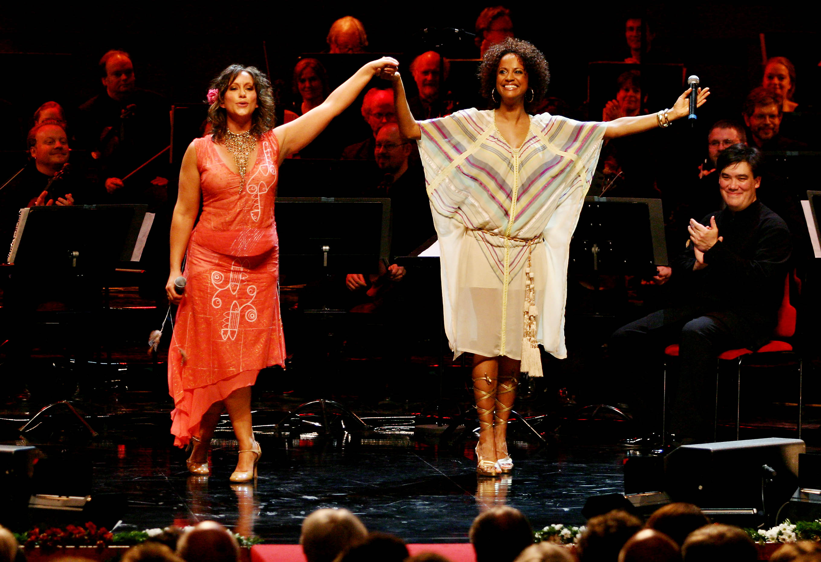 Swedish singers Lisa Nilsson (left) and Simone Moreno performs at the 2005 Polar Music Prize ceremony at the Stockholm Concert Hall.